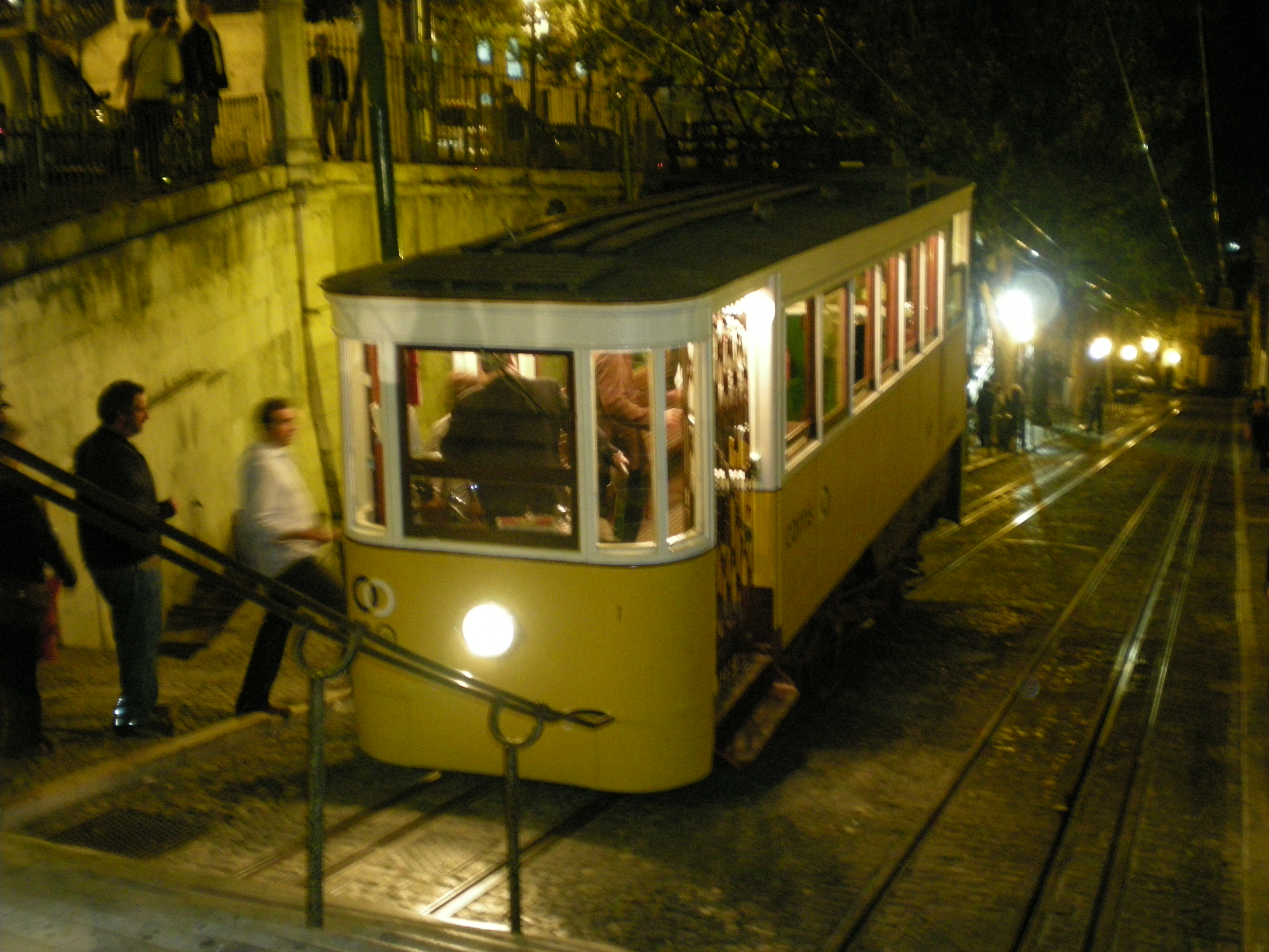 Funicular between the Avenida da Liberdade and the Bairro Alto in Lisbon